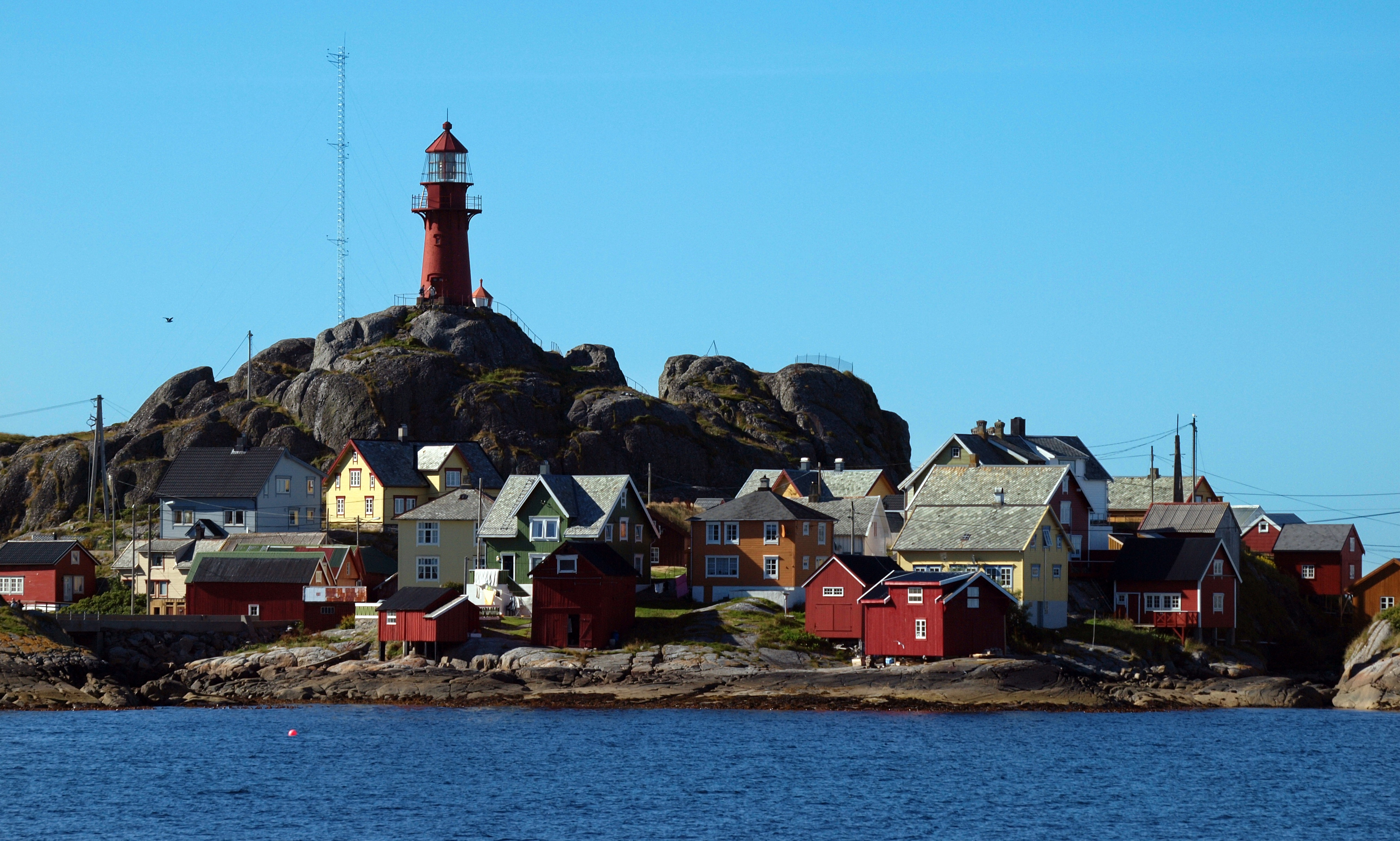 Ona, Sandøy municipality, Møre og Romsdal county, Norway.